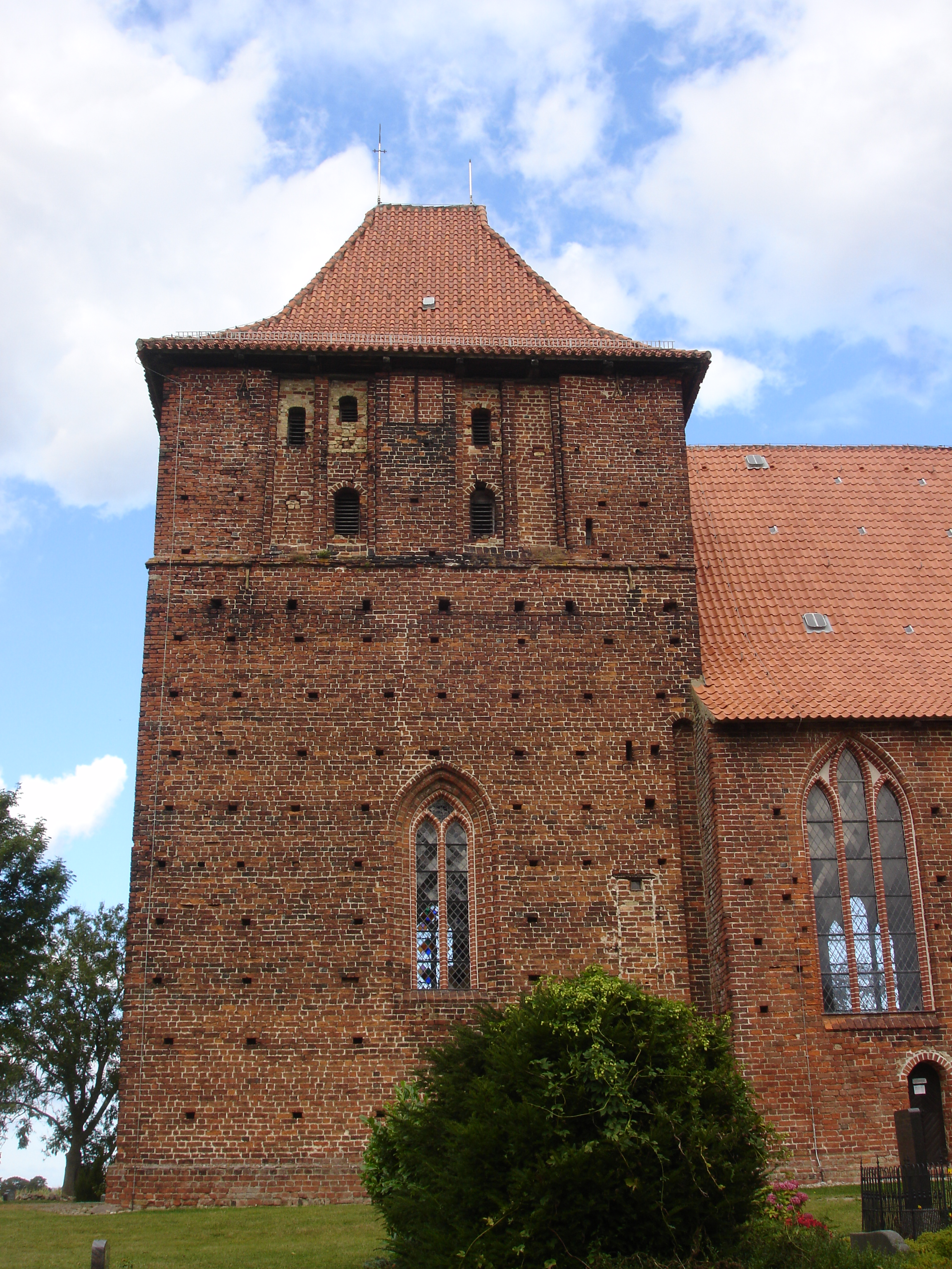 Church in Hohenkirchen, district Nordwestmecklenburg, Mecklenburg-Vorpommern, Germany